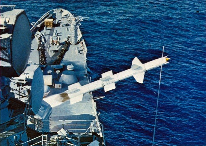 Launch of an RIM-8 Talos missile from the U.S. Navy guided missile cruiser USS Chicago (CG-11).